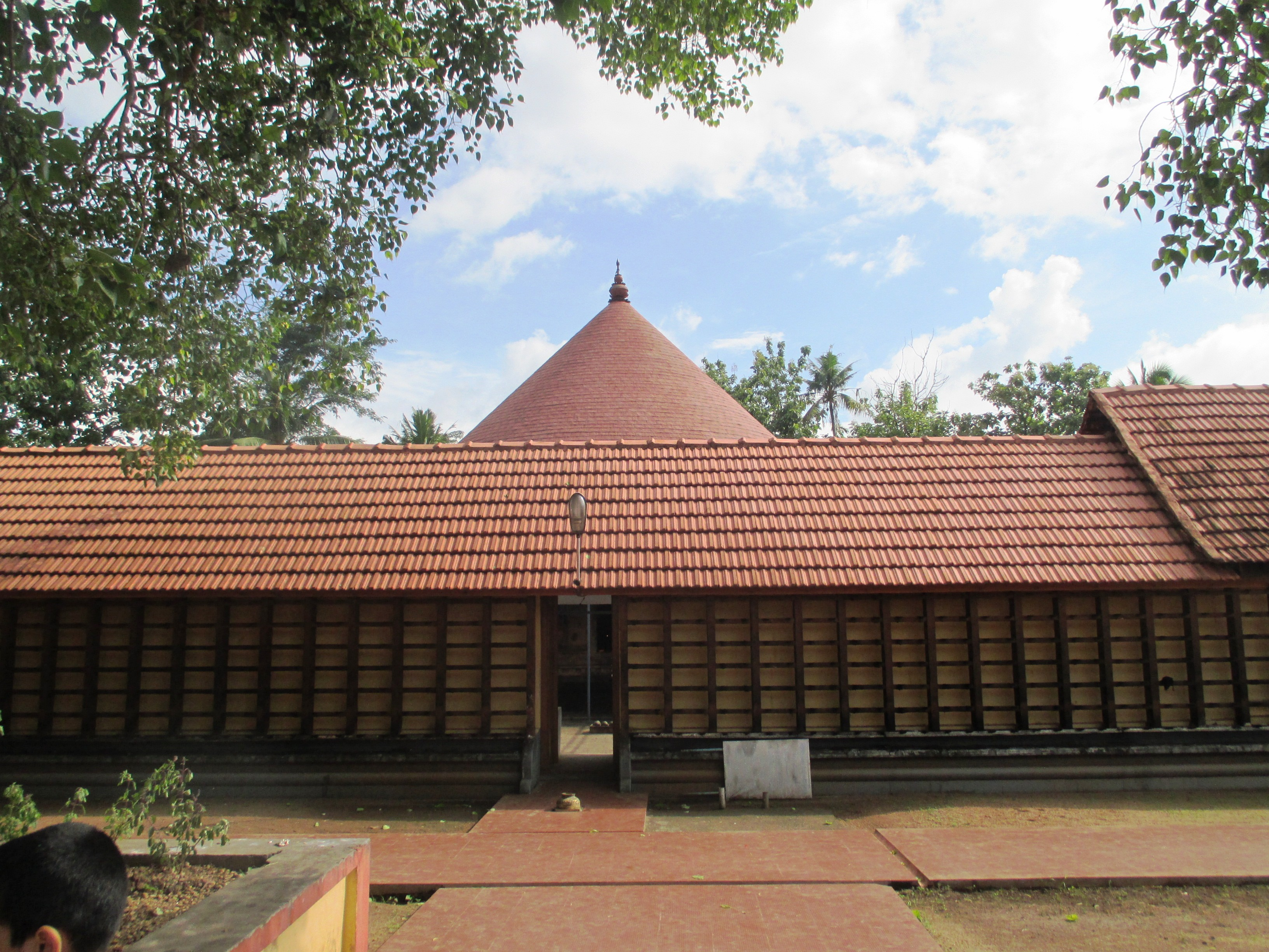 Thrikkakara temple